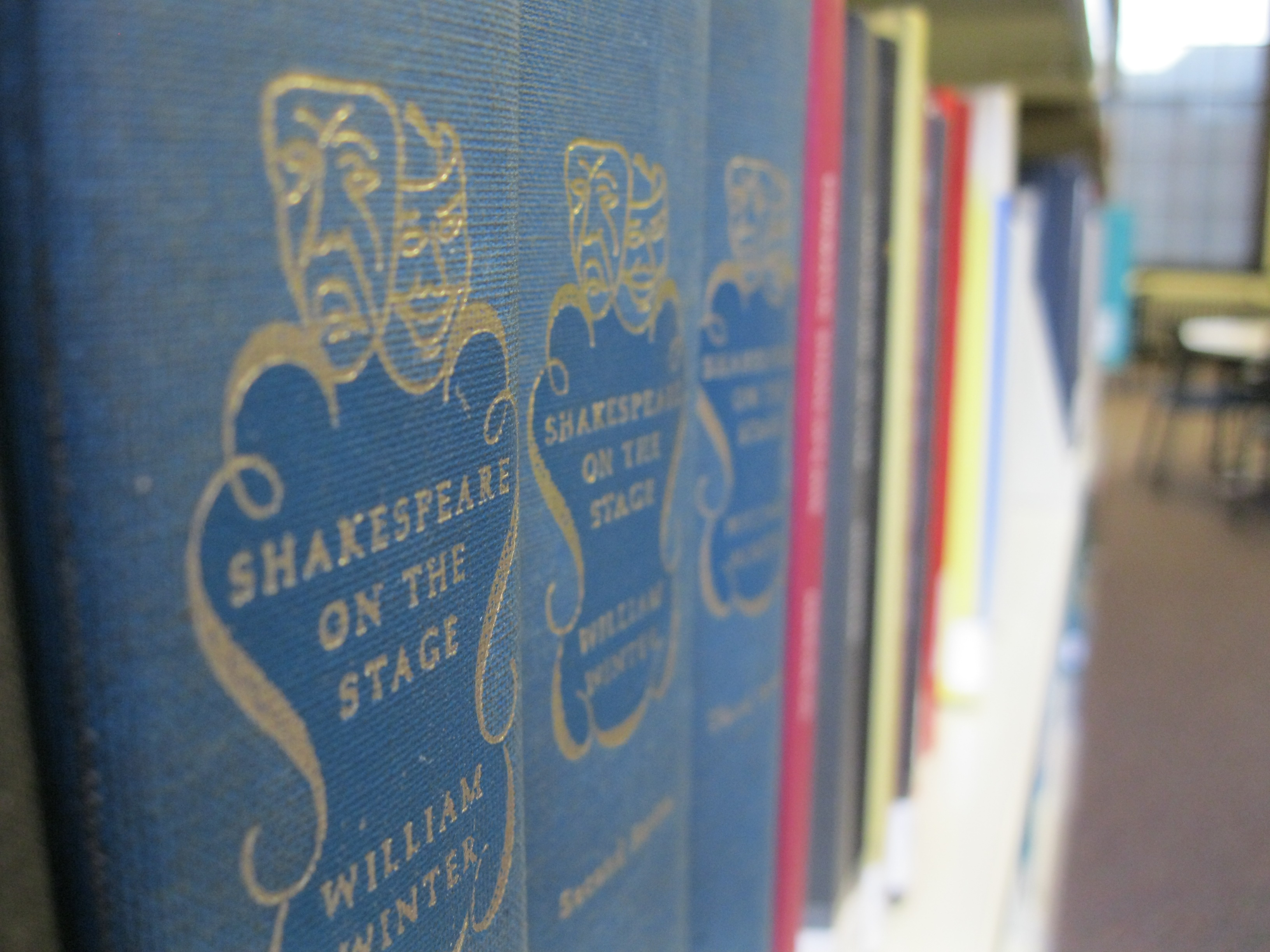 Photo taken on 24 Jan, 2013 by A.M. Stangl